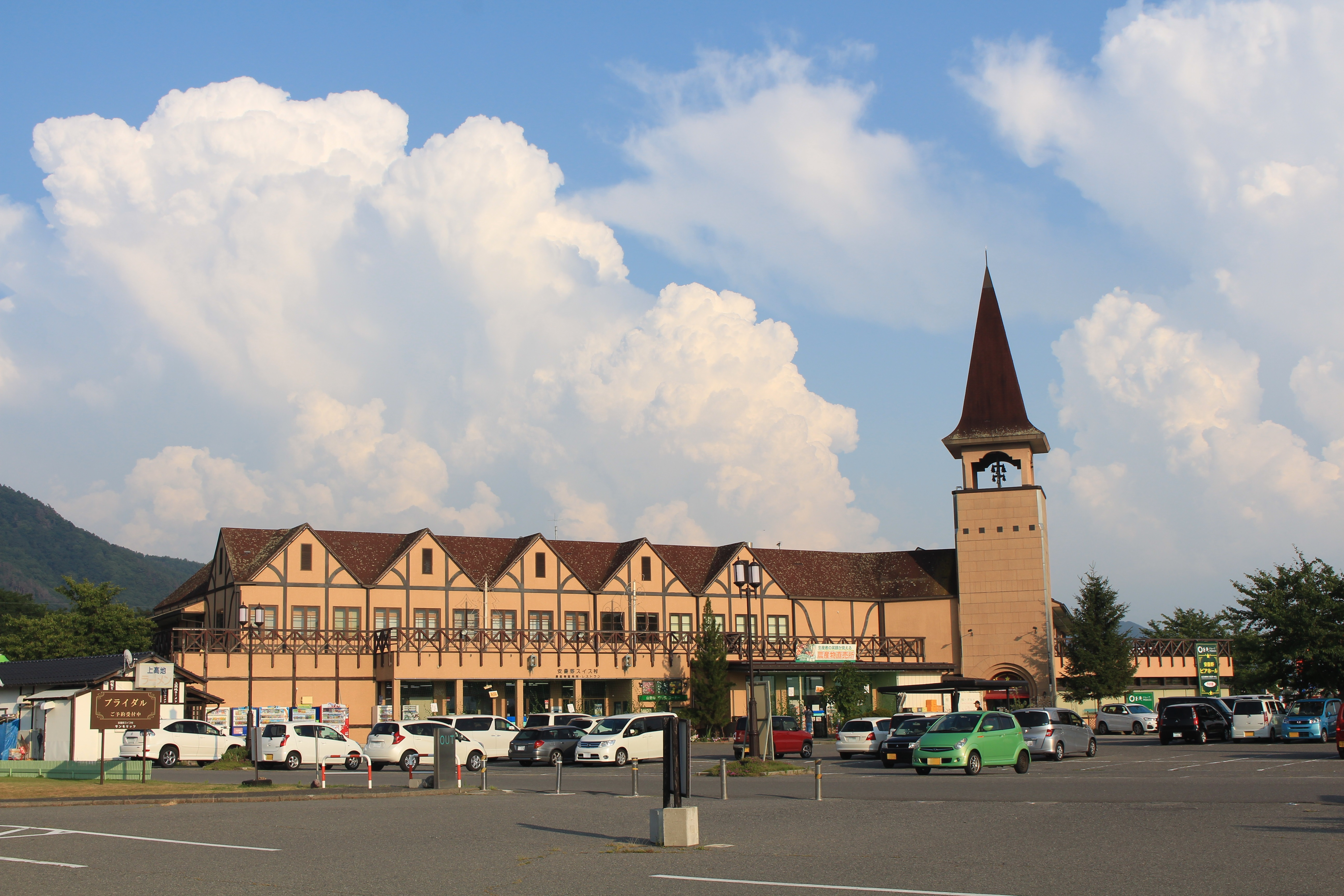 Azumino Swiss Village along Nagano Prefectural Road Route 310, in Azumino, Nagano prefecture, Japan.